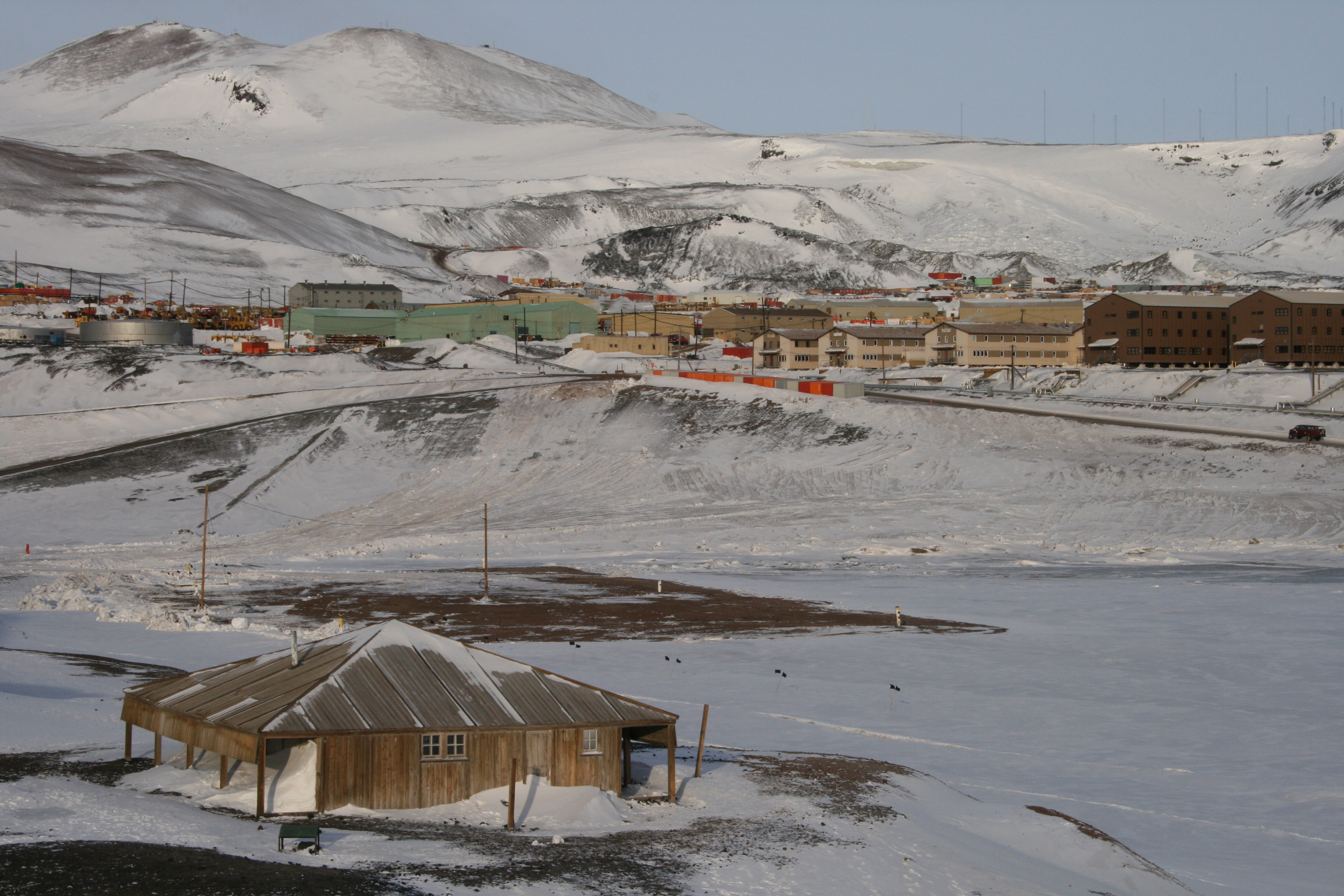 Scott's Discovery Hut and McMurdo Station at Ross Island, Antarctica. Photo shot from hut point.